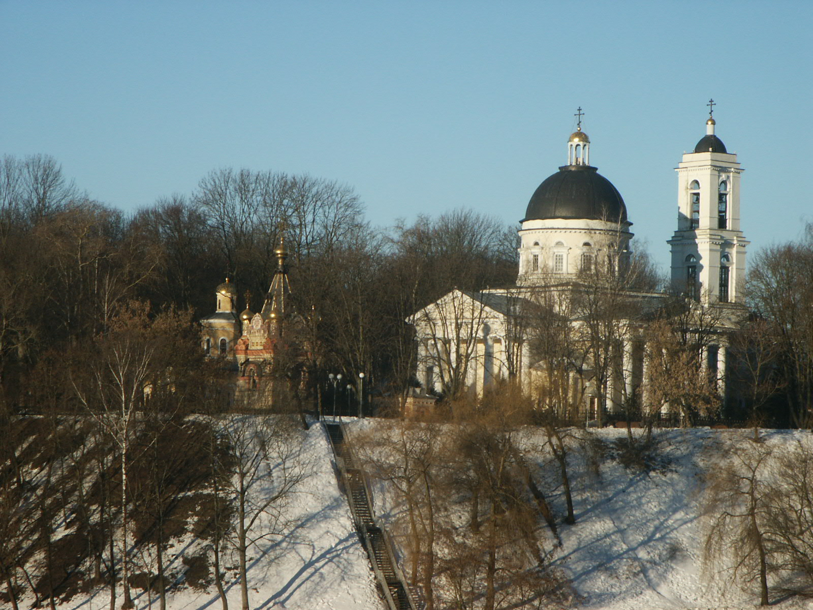 Cathedral of Saint Peter and Paul and chapel-burial-vault of Paskevichs family, Homel, Belarus.